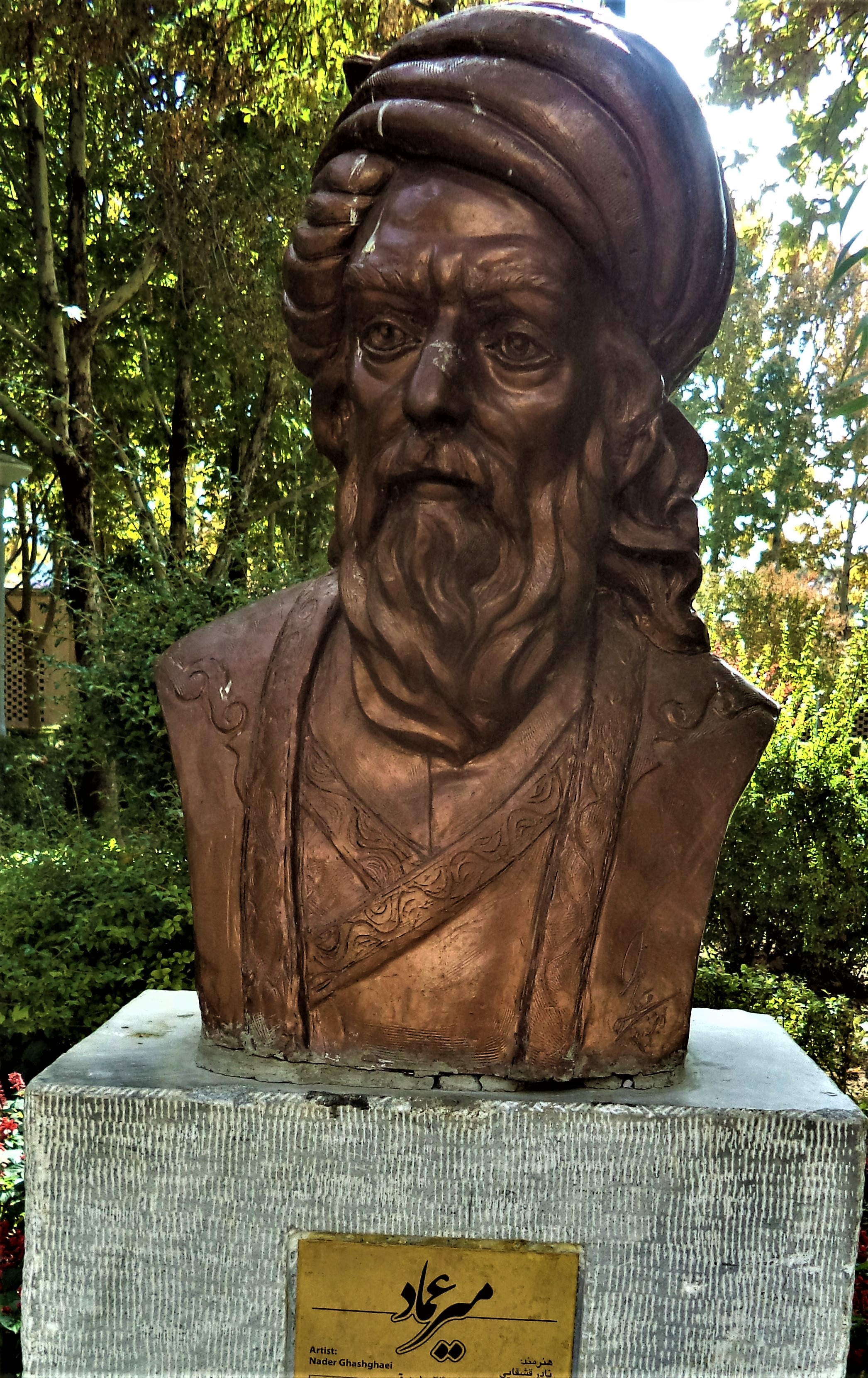 Head Statue of Mir Emad Hassani- (1554-1615)- (961-1024 A.H.)